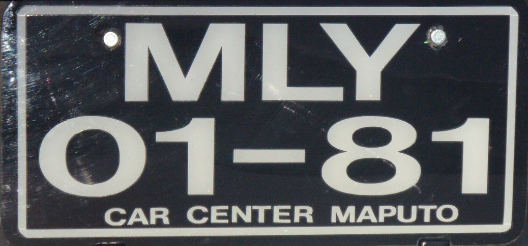 Number plate in Mozambique Author: Lars H. Rohwedder (User:RokerHRO) Self-taken photo License: PD